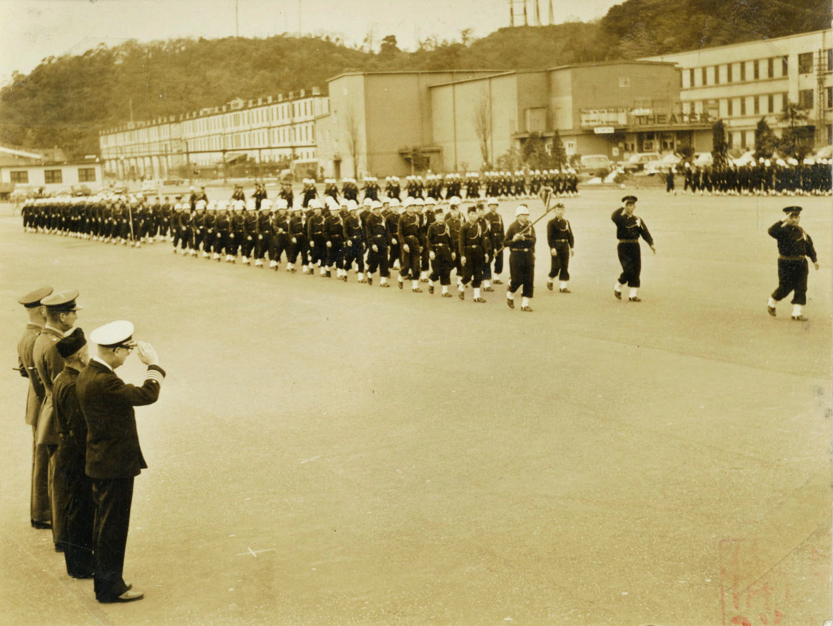 Chief Kanome, along with Marine Corps Col. E. L. Lyman at monthly inspection